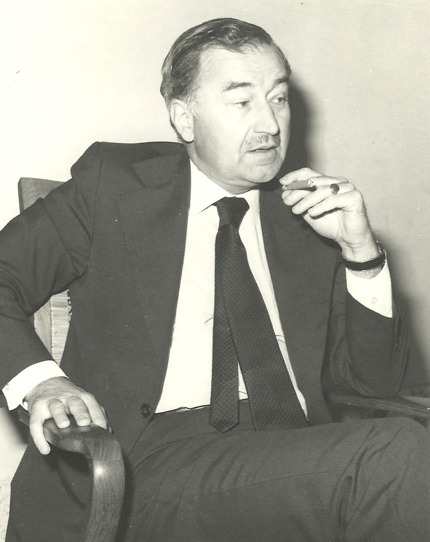 Keith William MacLellan during diplomatic duties